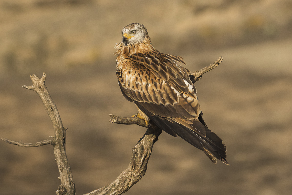 Red Kite - Catalonia - Spain_MG_5333